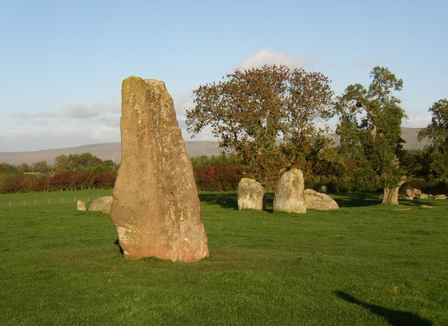 Long Meg, Little Salkeld Another view of this standing stone.